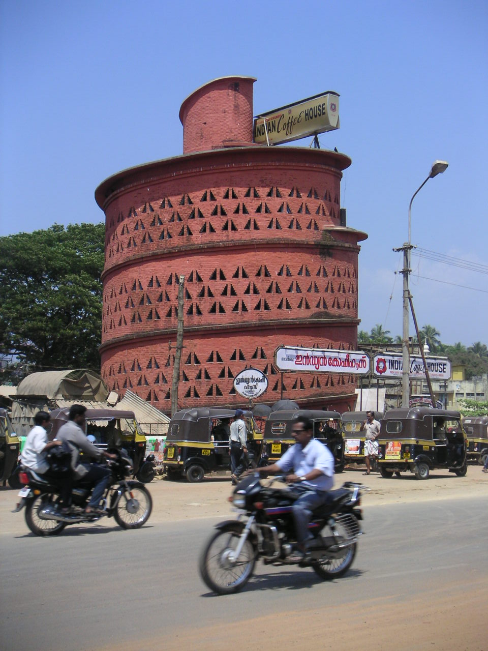 Indian Coffee House, Trivandrum, Kerala, India. Photo: Soman